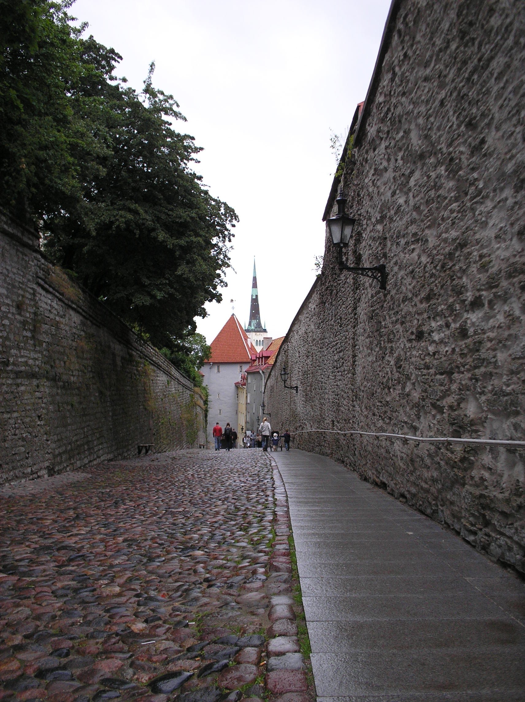 This is Pikk Jalg (Long Leg); the older of the two routes from the Lower Town to Toompea.